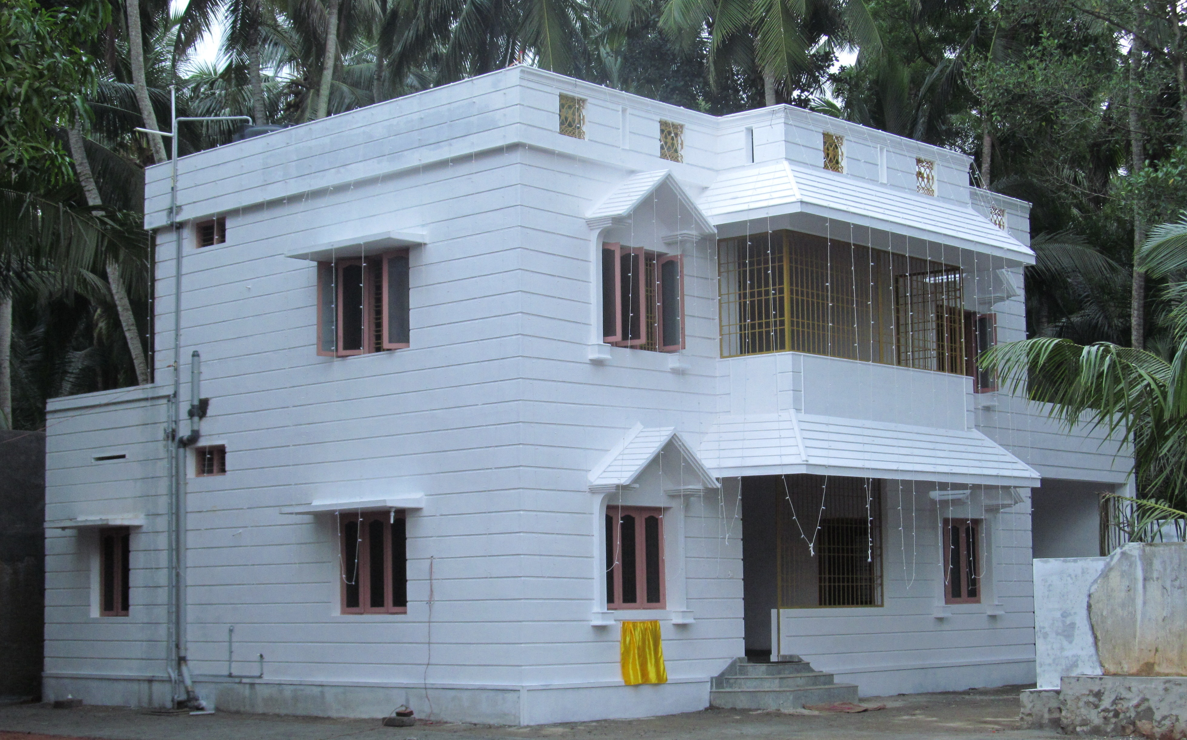 Kallukoottam church parish house